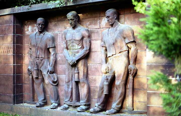 Memorial for the 28 victims of the mine accident on pit 'Vereinigte Präsident' in 1936. The memorial was designed by the artist Wilhelm Wulff. Only few parts of it follow the restrict guidelines for arts of the regime during the national-socialist period from 1933 to 1945. Just the miner in the middle symbolizes the archetype of an aryan athlete, the outer persons look like men in mourning. Also the legend is reserved, typically national-socialist terms are missing.